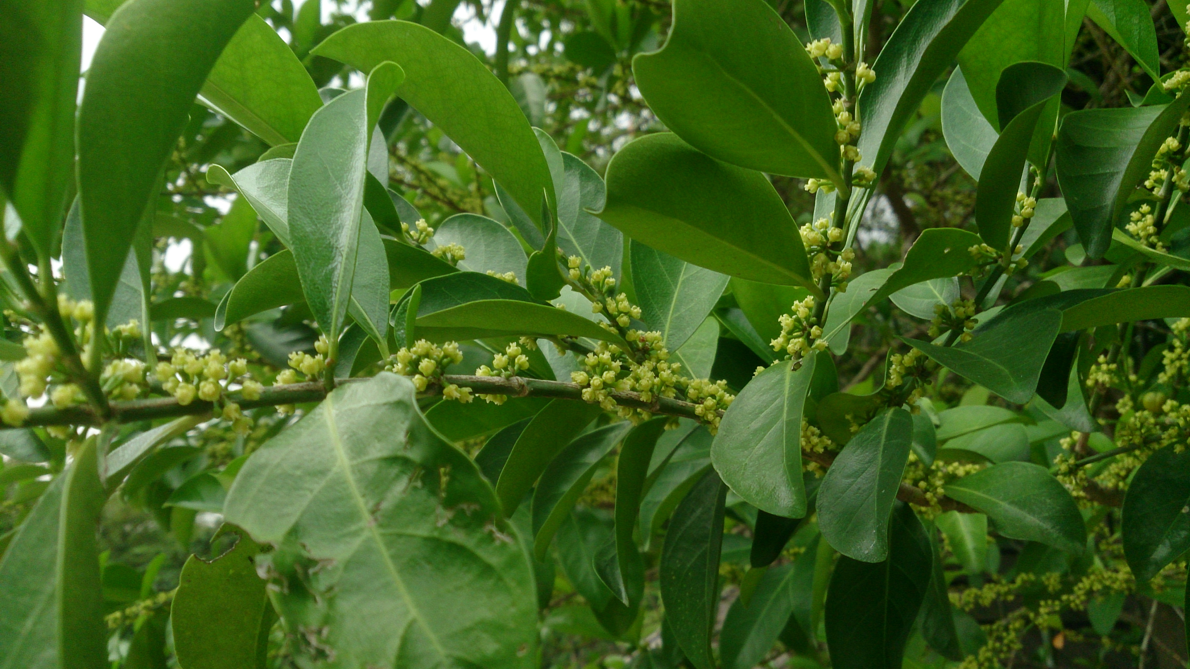 Suregada multiflora. Synonyms: Gelonium multiflorum. Gelonium bifarium. Gelonium glomerulatum. Common names: False Lime. False Lime Merlimau. Origin: India, Indochina, Malesia.